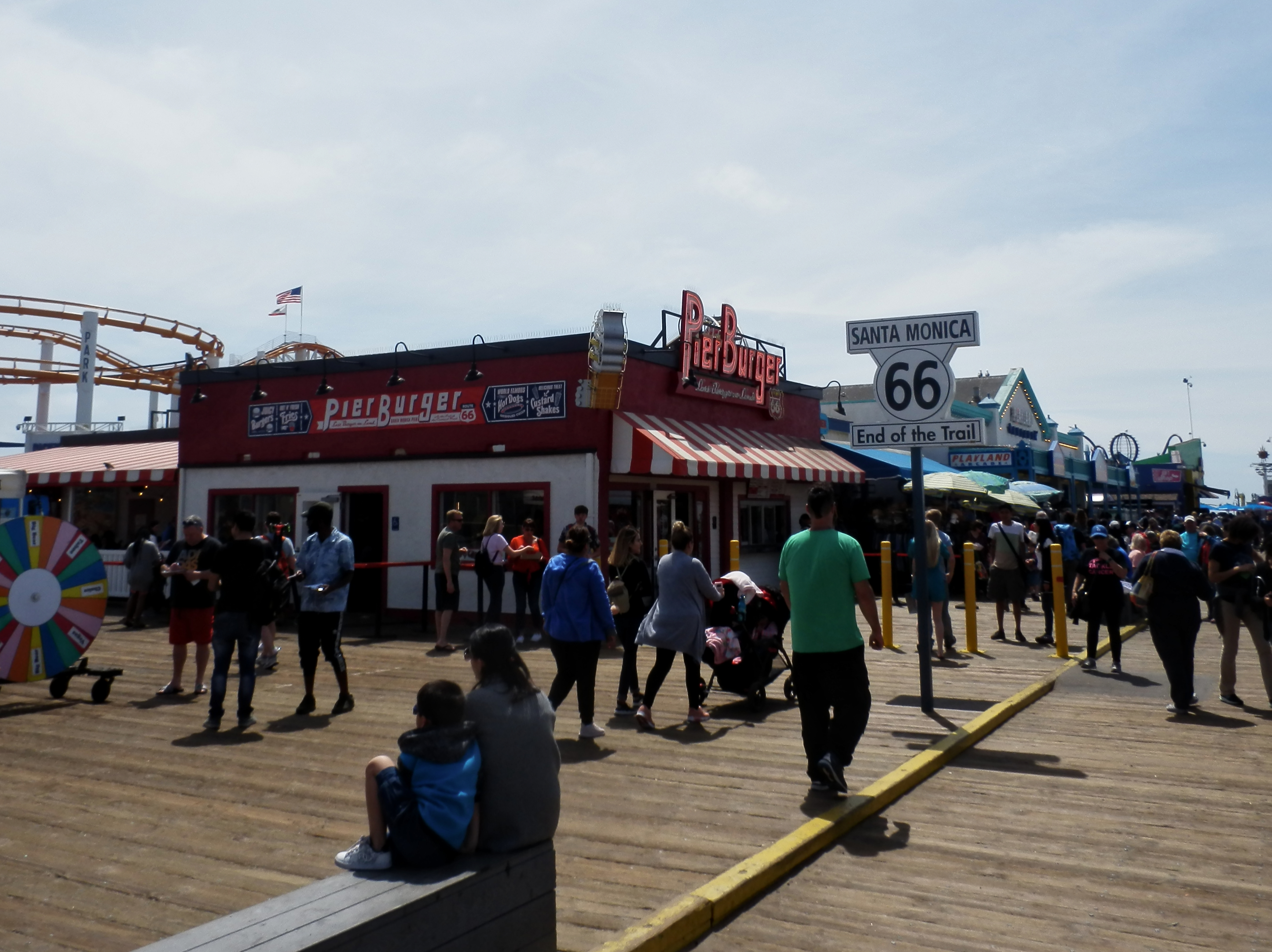 Santa Monica End Route 66